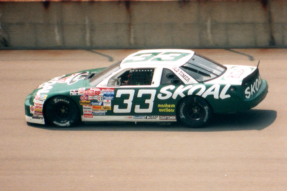 Michigan International Speedway – June 1994 Notice the Hoosier tires on Gant’s car, at the time there was a tire “war” between Goodyear and Hoosier. Film Scan Canon AE-1